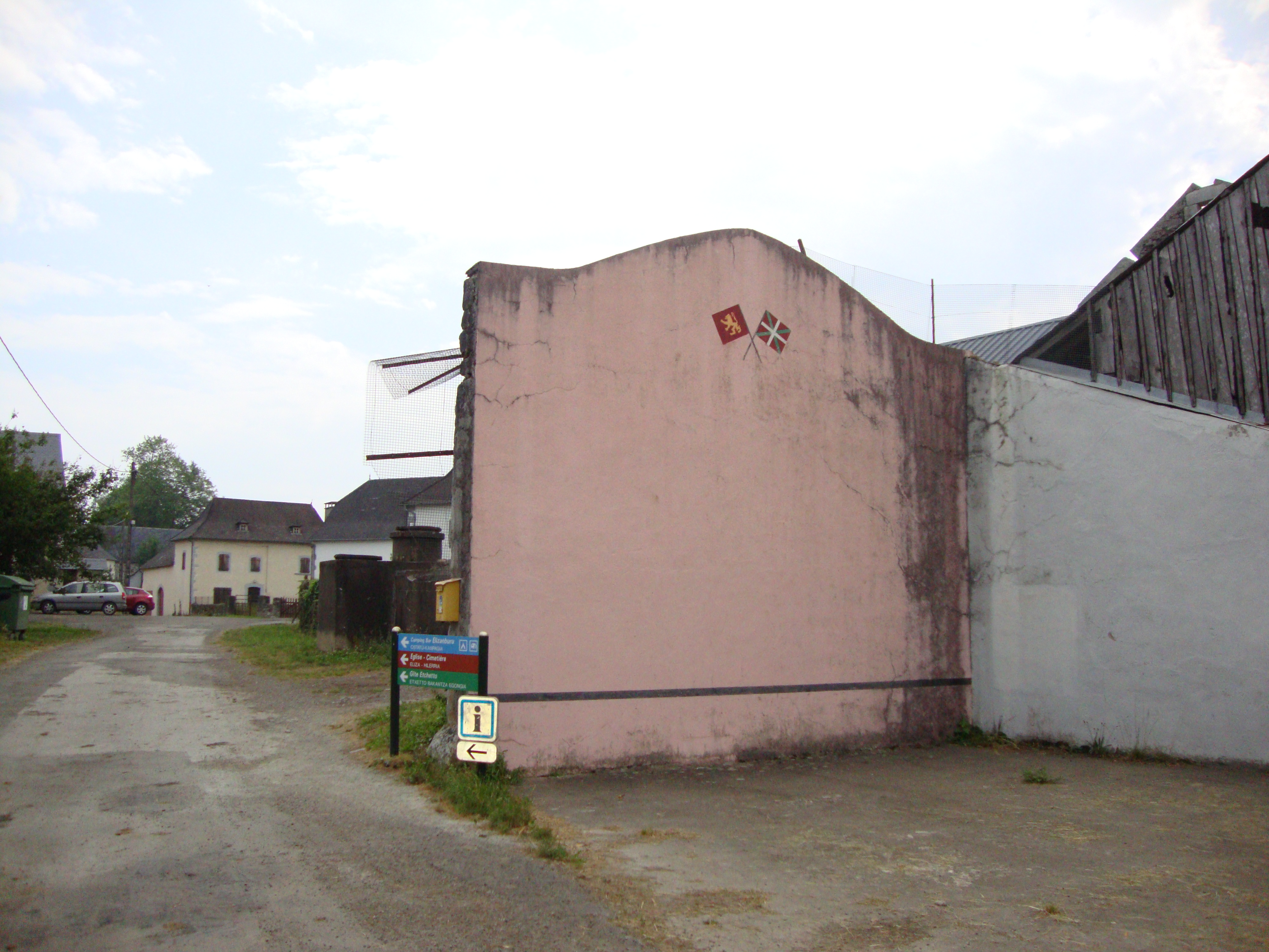 Suhare (Ossas-Suhare, Pyr-Atl, Fr) pelota court.